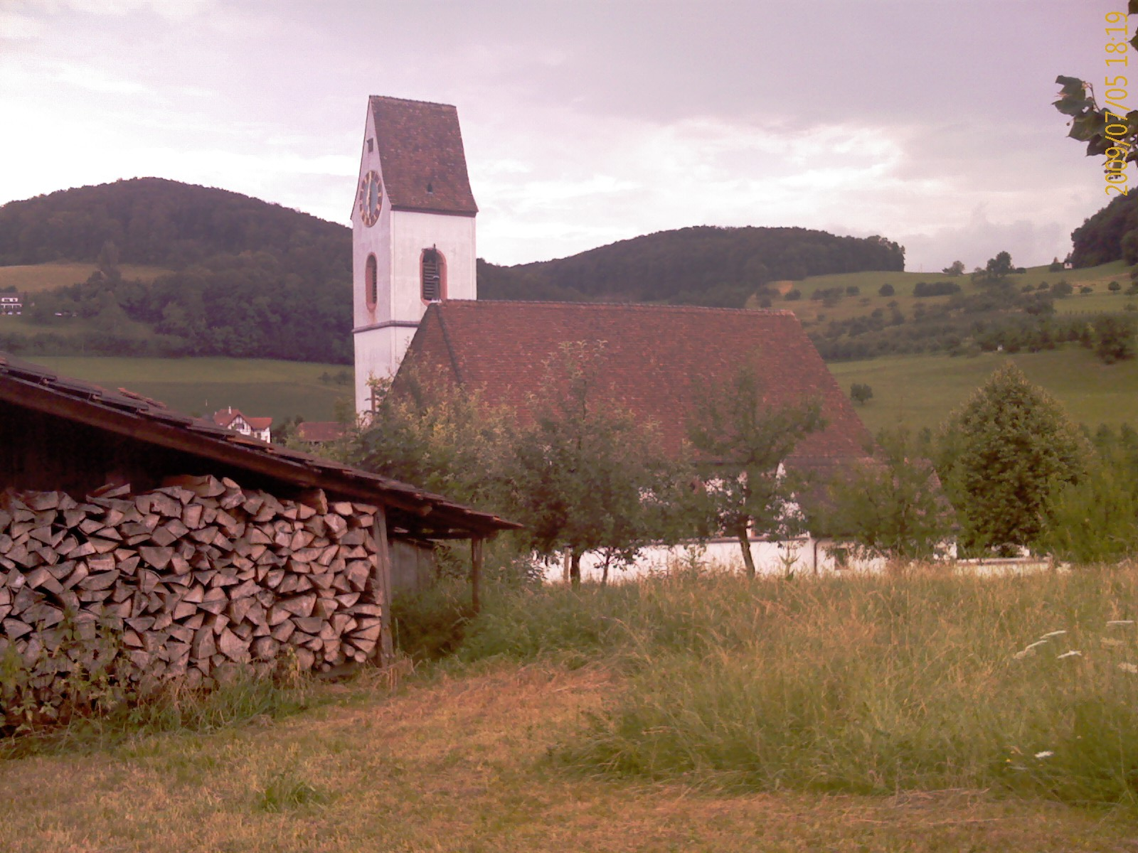 Church of Maisprach, canton of Basel-Country, SwitzerlandEsperanto: Preĝejo de Maisprach, Kantono Zuriko, Svislando